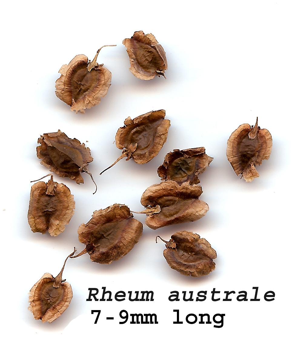 Self made scan of the fruits of Rheum australe, made by Paul Henjum 11/27/07